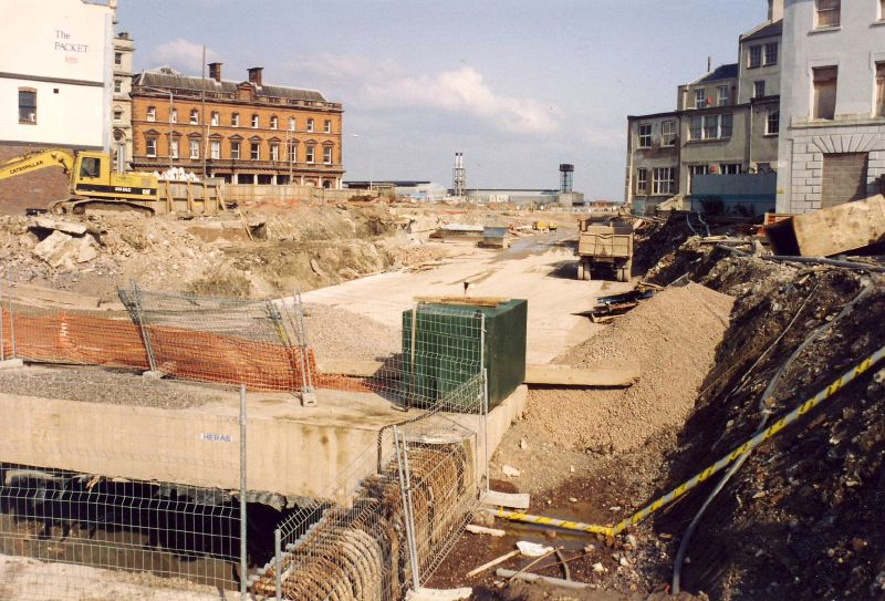 The Butetown Tunnel during construction, Cardiff Bay, Cardif, Wales